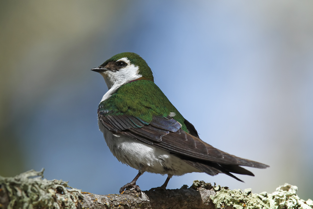 A male Violet-green Swallow in San Luis Obispo, California, USA.